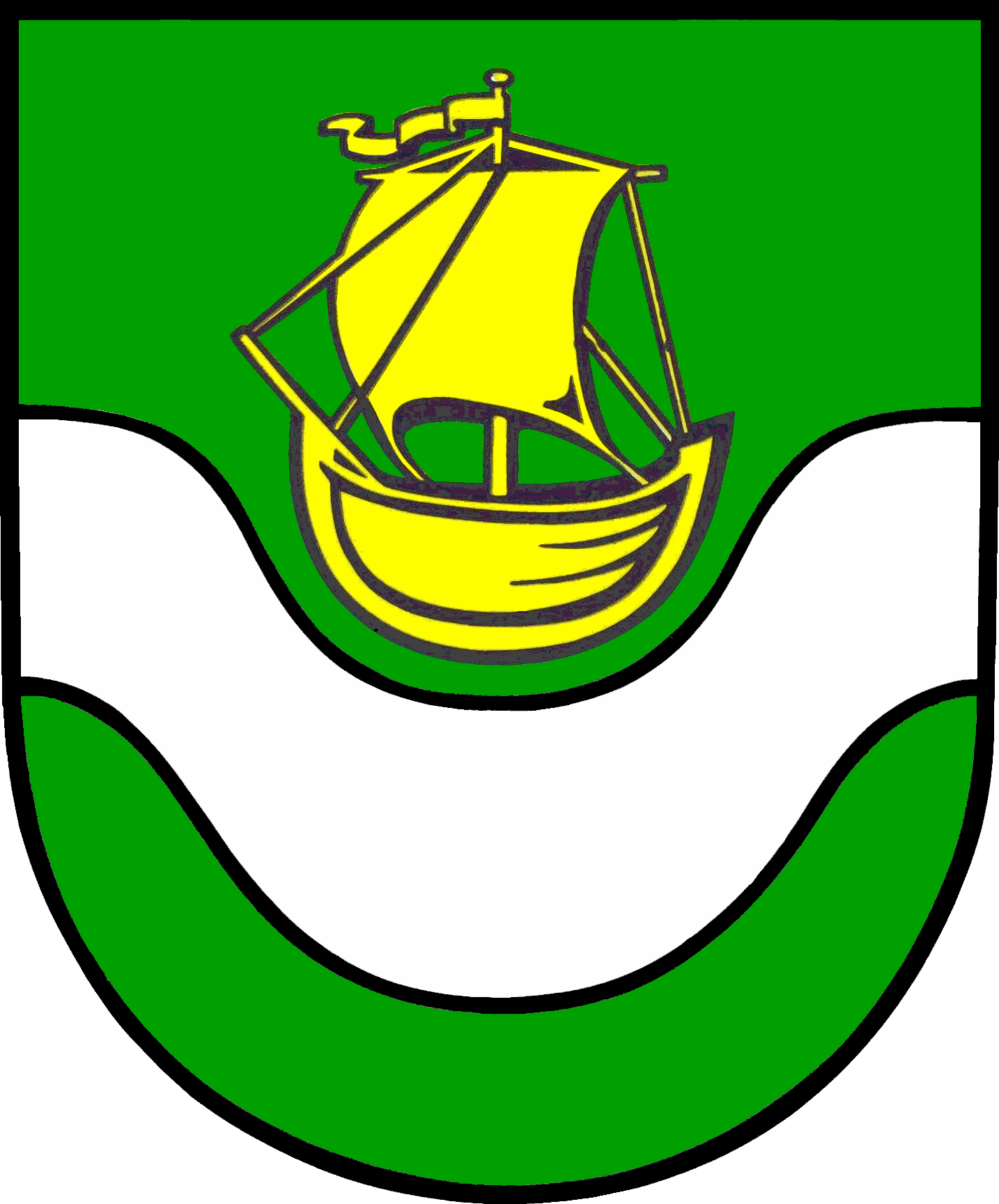 Coat of arms of the municipality Delve in Schleswig-Holstein, Germany.